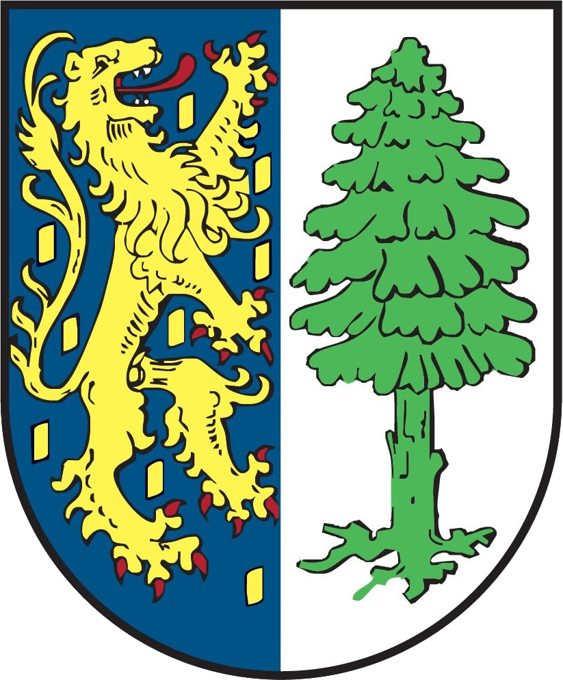 Coat of arms of Dannenfels